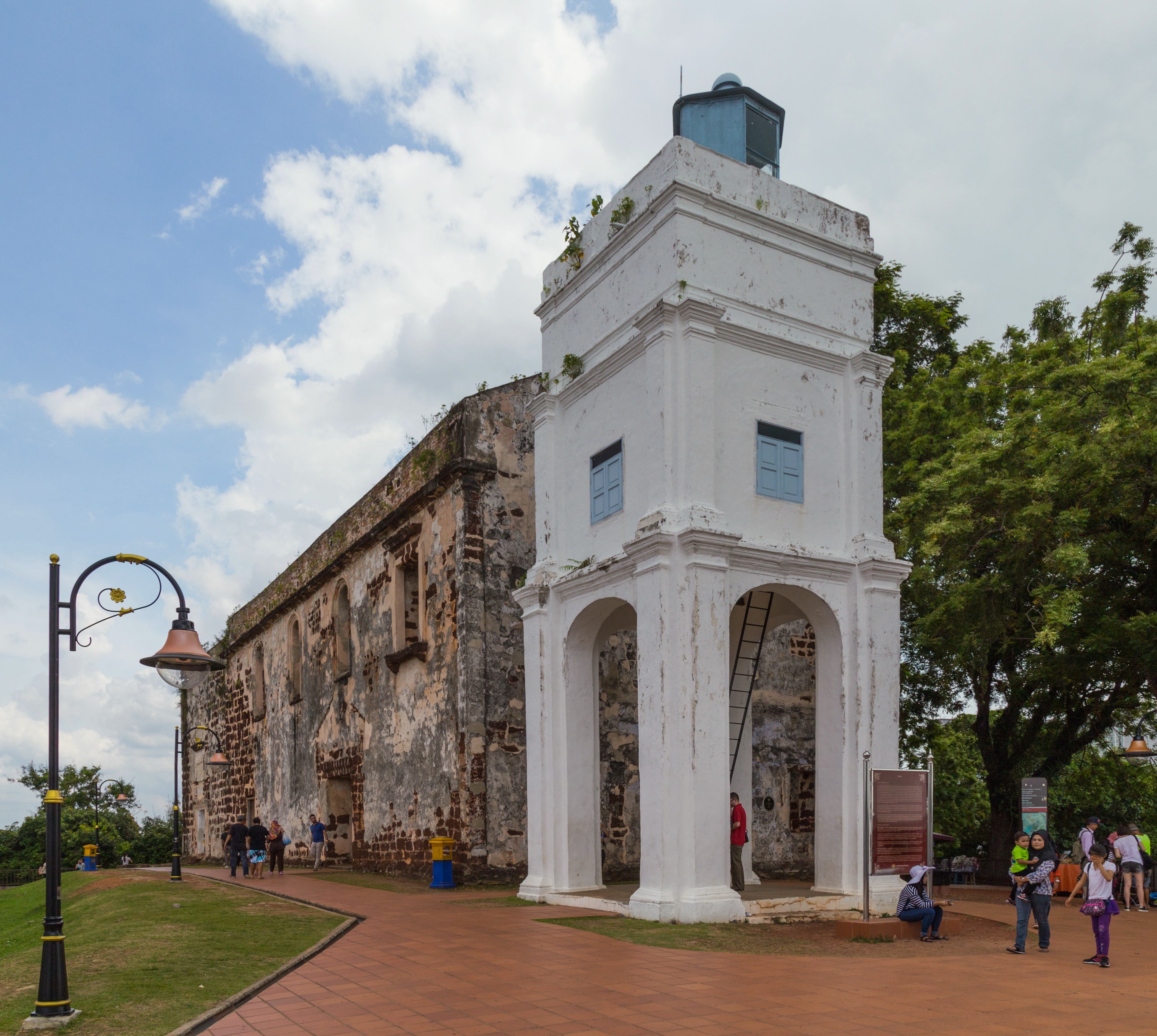 St. Paul's Church. Malacca City, Malacca, Malaysia.